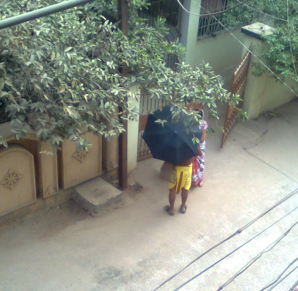 they are the traditional beggar tribe in Odisha ଓଡ଼ିଆ: ନିଜ ପାରମ୍ପରିକ ପୋଷାକରେ ଚକୁଳିଆ ପଣ୍ଡା ।